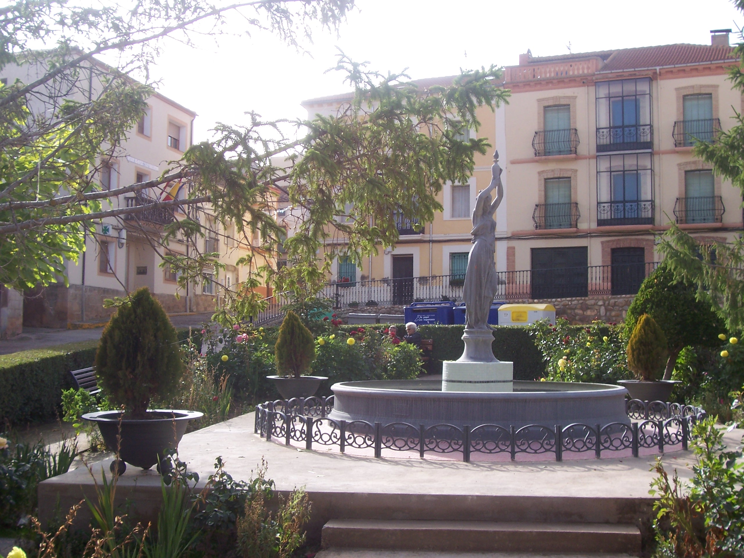 Plaza Mayor de Serón de Nágima, jardin.